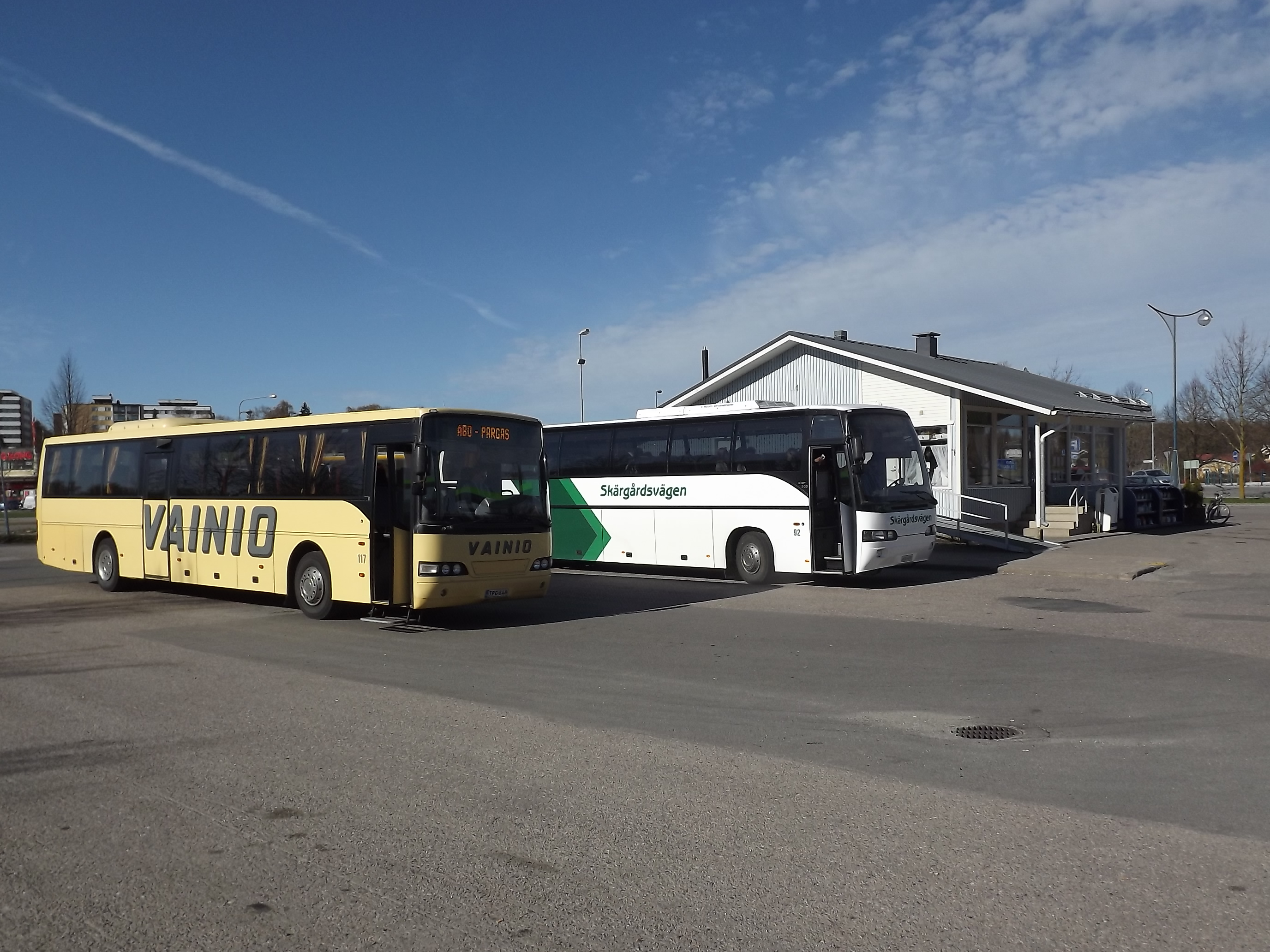 Buses of Vainion Liikenne (Turku–Pargas) and Skärgårdsvägen (Turku–Pargas–Nagu–Korpo/Houtskär) at the bus station of Pargas.